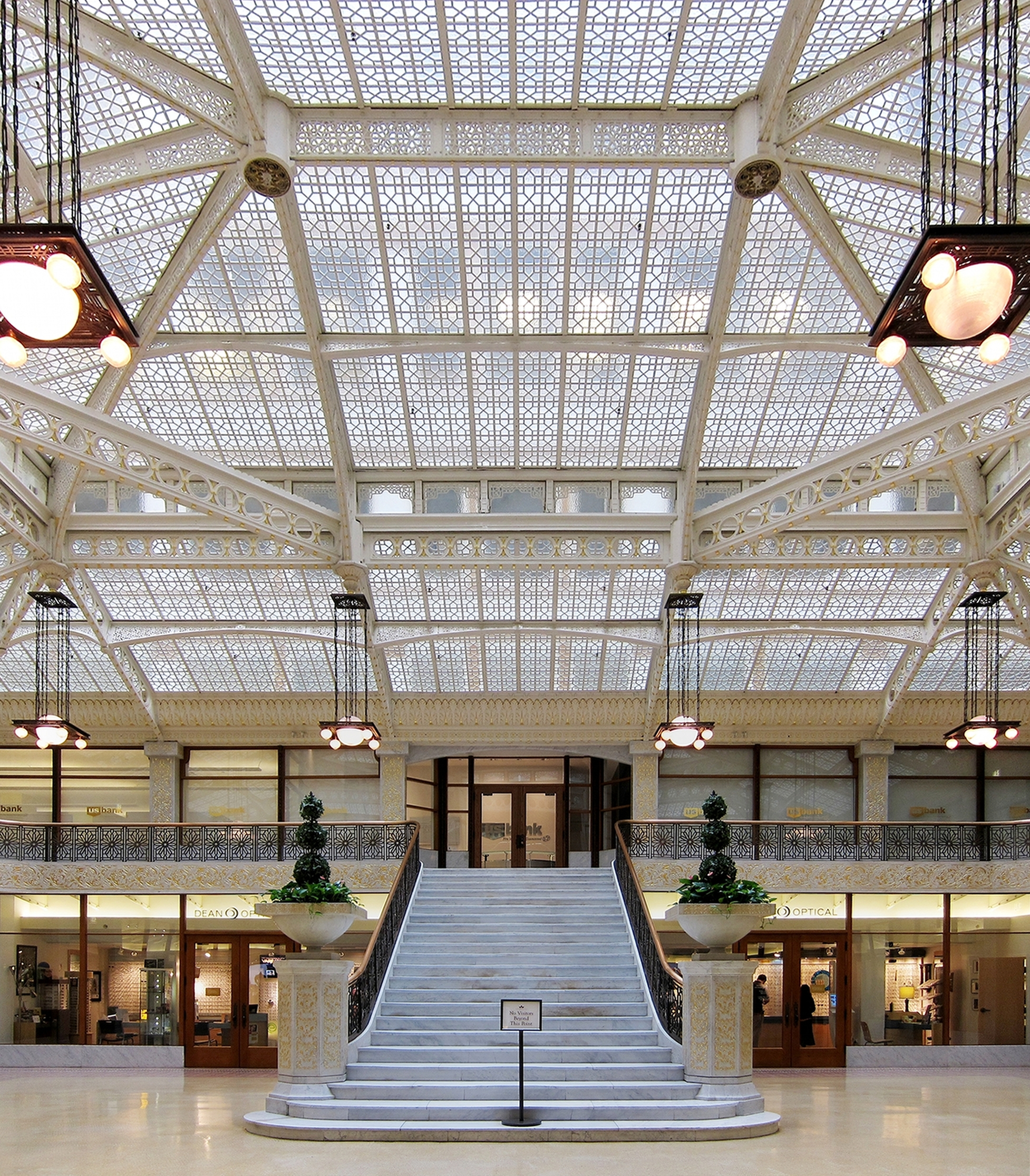 Central stair of the Rookery Building in Cook County, Chicago, USA.